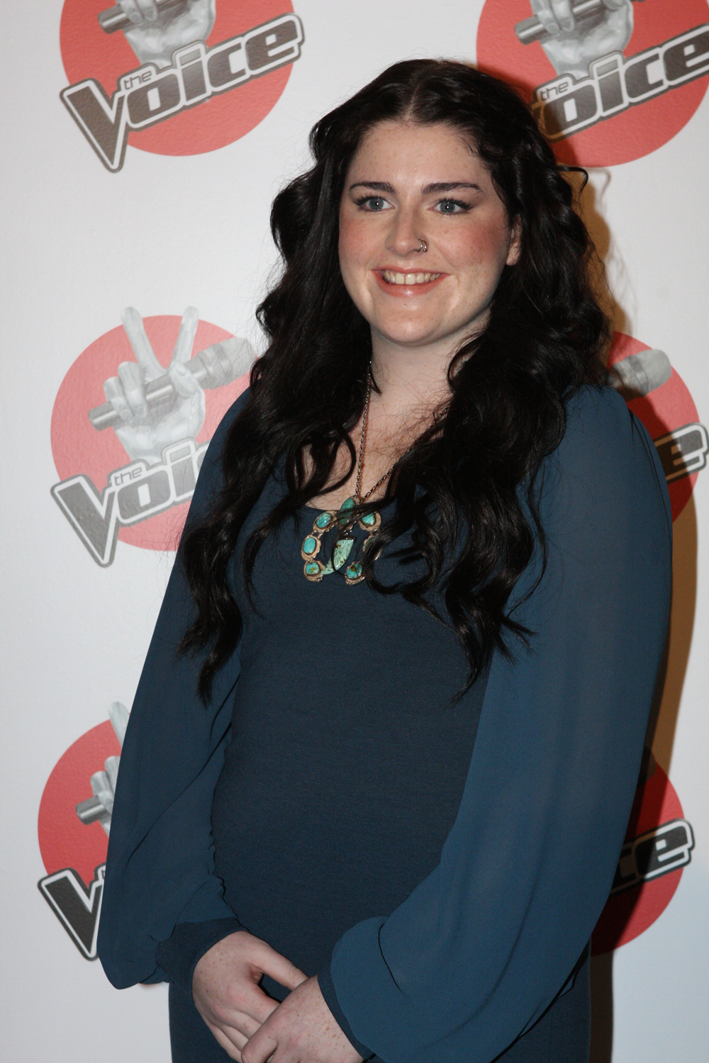 Karise Eden at The Voice (Australia) media conference in Hordern Pavilion, Moore Park.